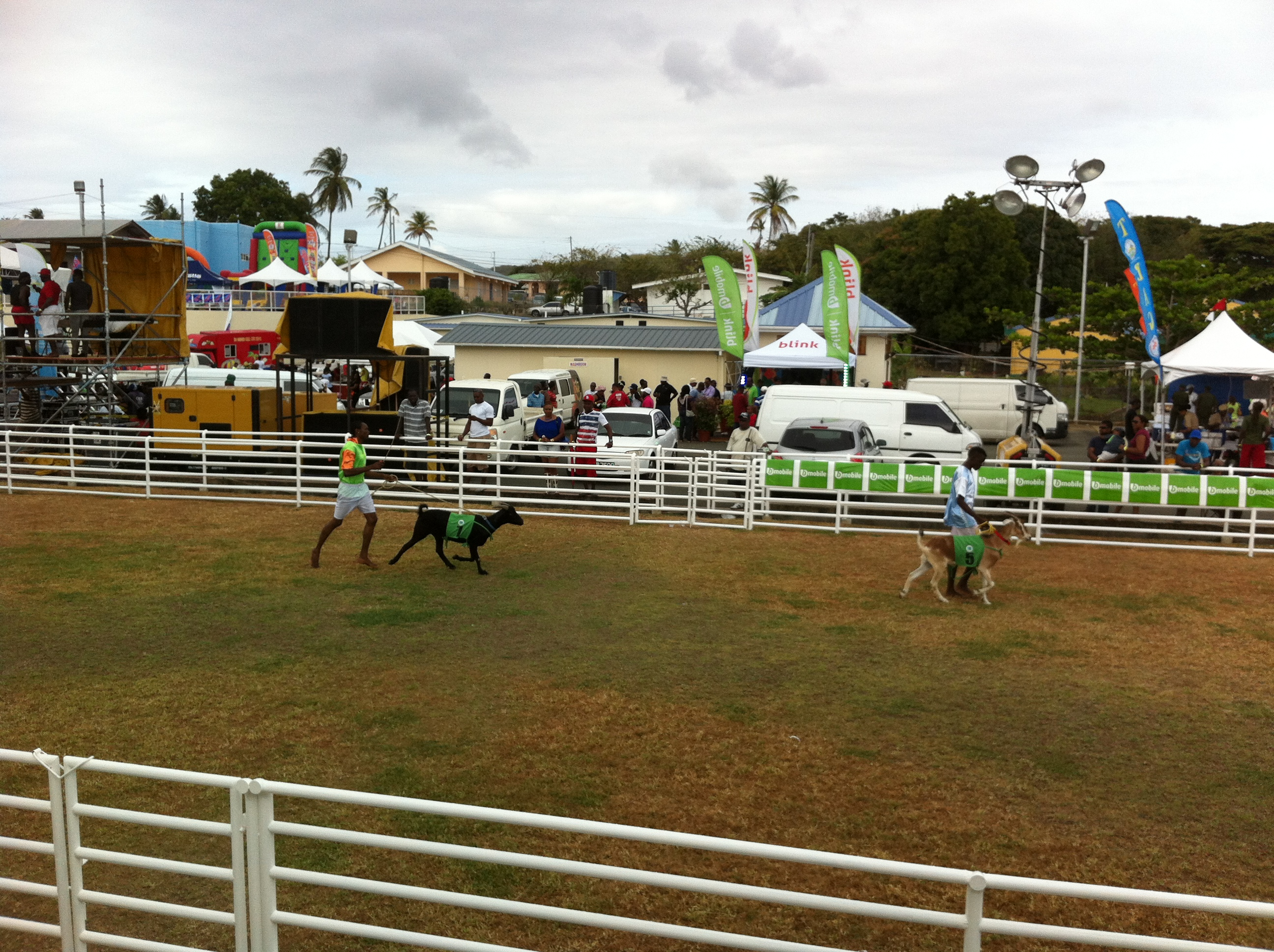 Goat race, Buccoo, Tobago, Trinidad and Tobago, April 2014.